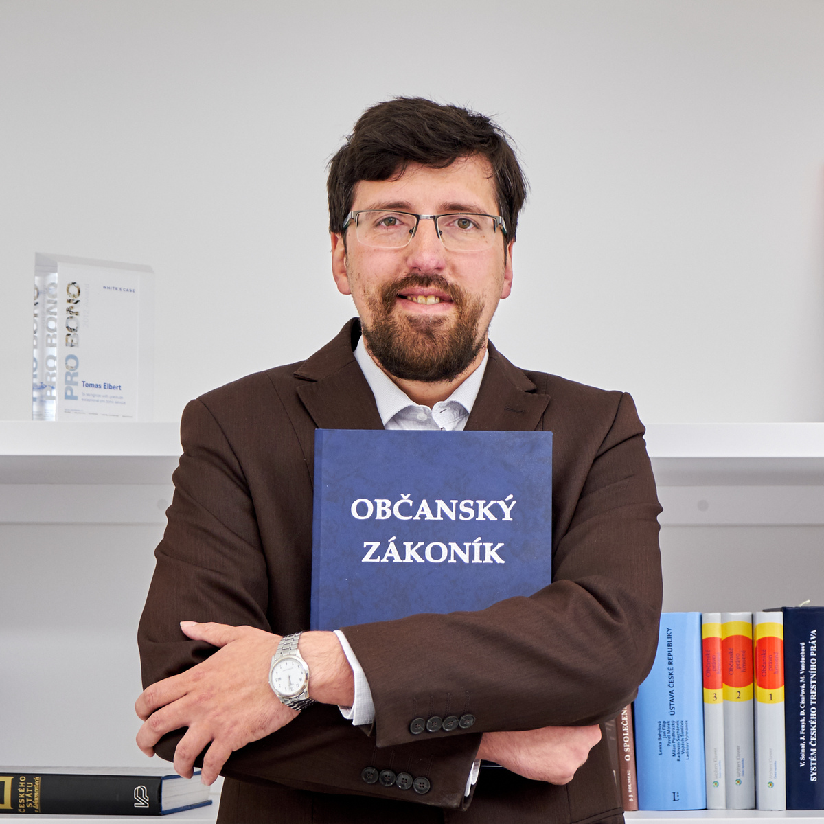 Ondrej Preuss